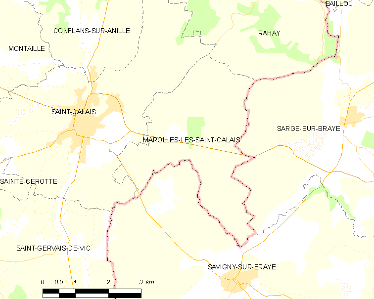 Map of French municipality